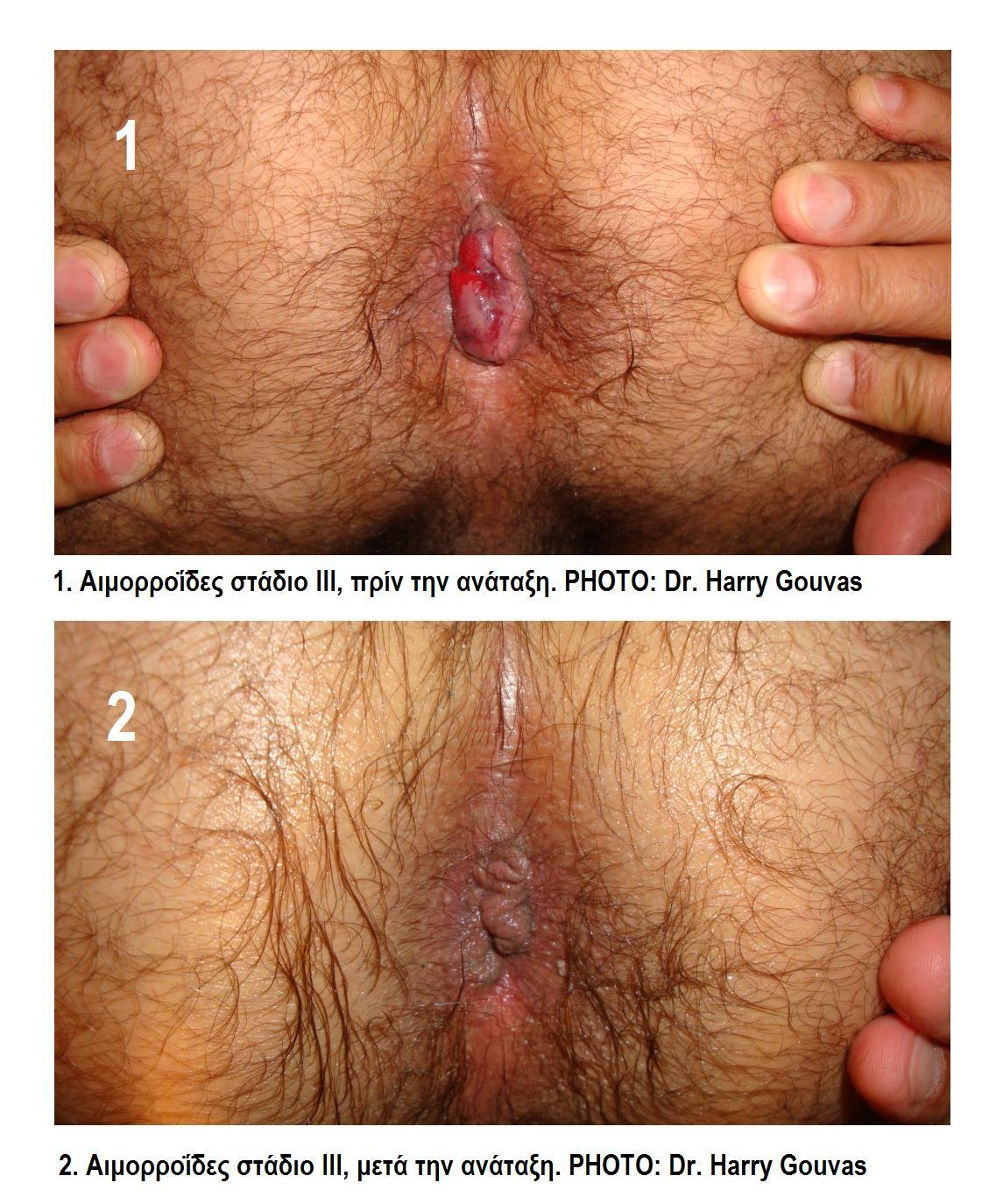 Hemorrhoids grade 3